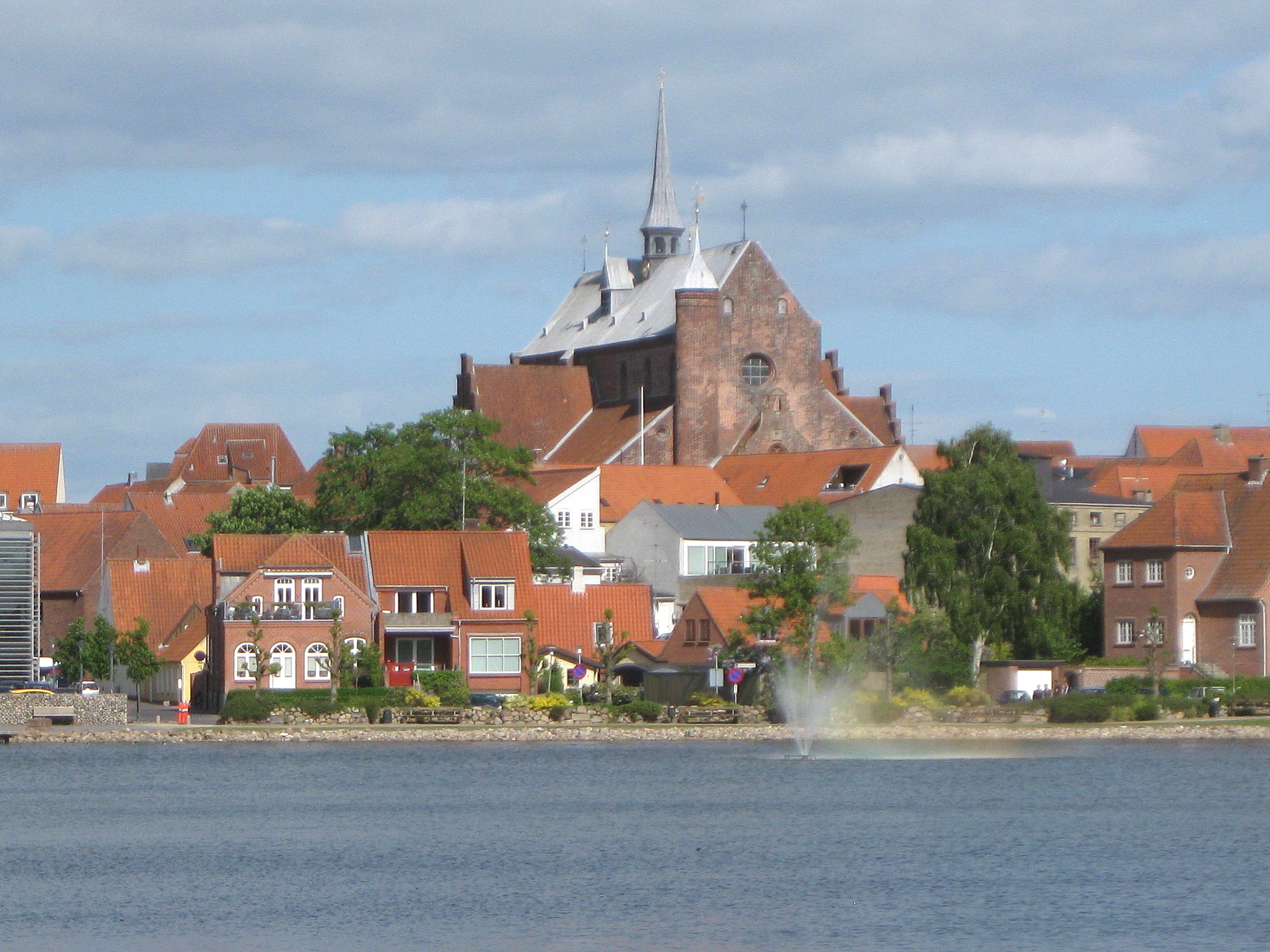 The cathedral "Haderslev Domkirke" in the town "Haderslev". The town is located in Southern Jutland, Denmark.